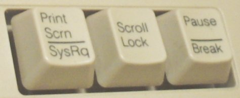 Computer keyboard keys next to the F-keys: Print Scrn/SysRq, Scroll Lock, Pause/Break